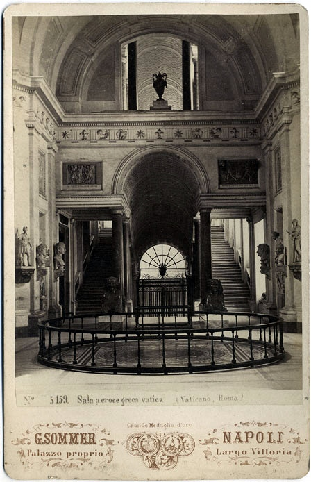 Giorgio Sommer (1834-1914) - "Cross-shaped room in the Vatican City Rome", Italy. Catalogue # 5159.